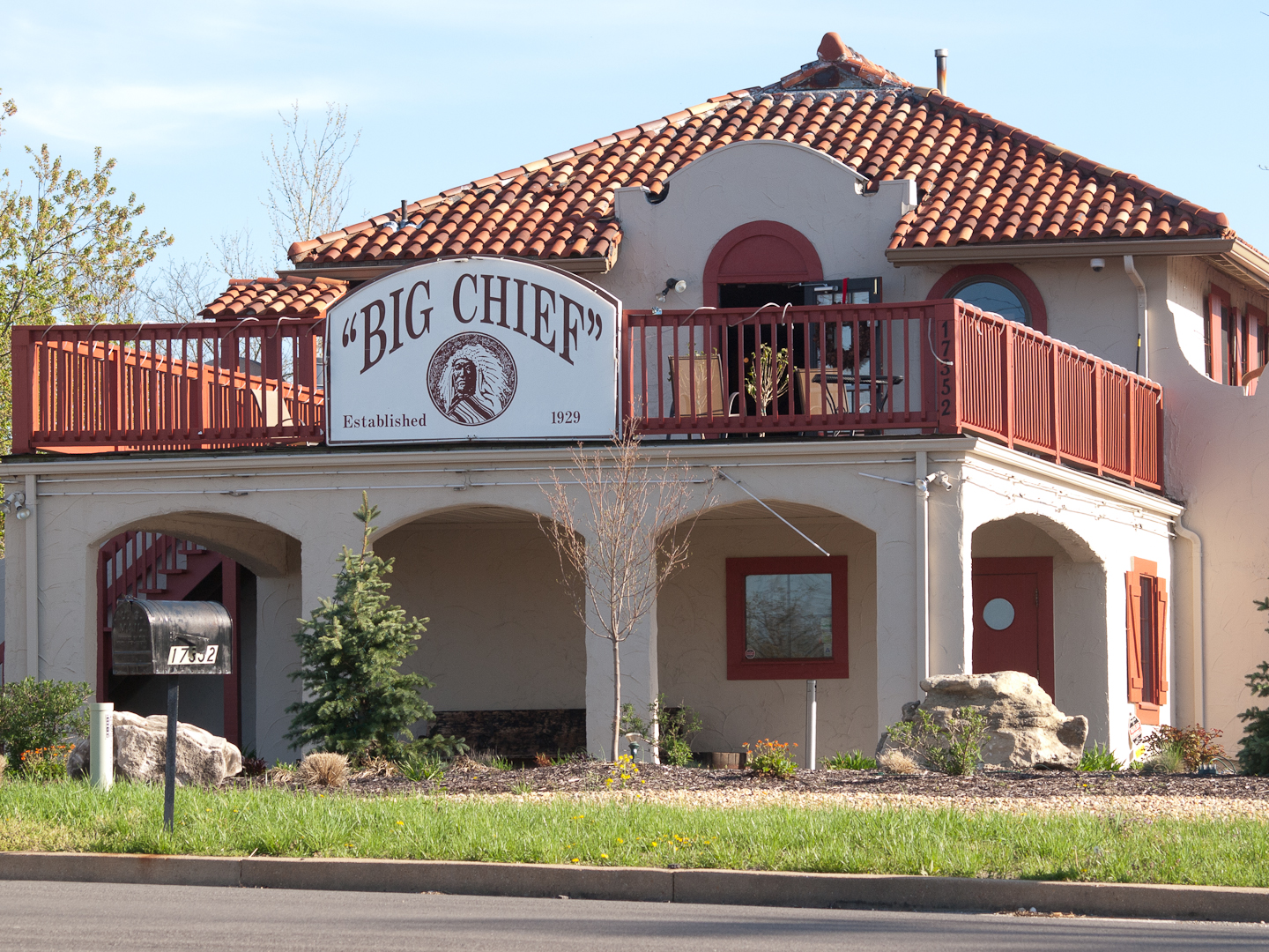 17352 Old Manchester Rd. 38°34′52″N 90°39′35″W